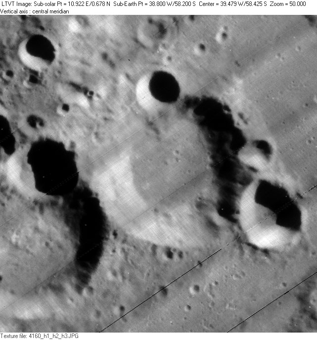 Crater Weigel. Detail from Lunar Orbiter IV-160H. High resolution scans from the USGS Lunar Orbiter Digitization Project remapped to a north-up aerial view by LTVT.